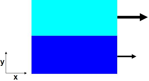 A conceptual illustration of the viscosity force. Two liquids are moving with different velocities generating a force. The movement is in the x direction and therefore the velocity gradient is Δvx/Δy